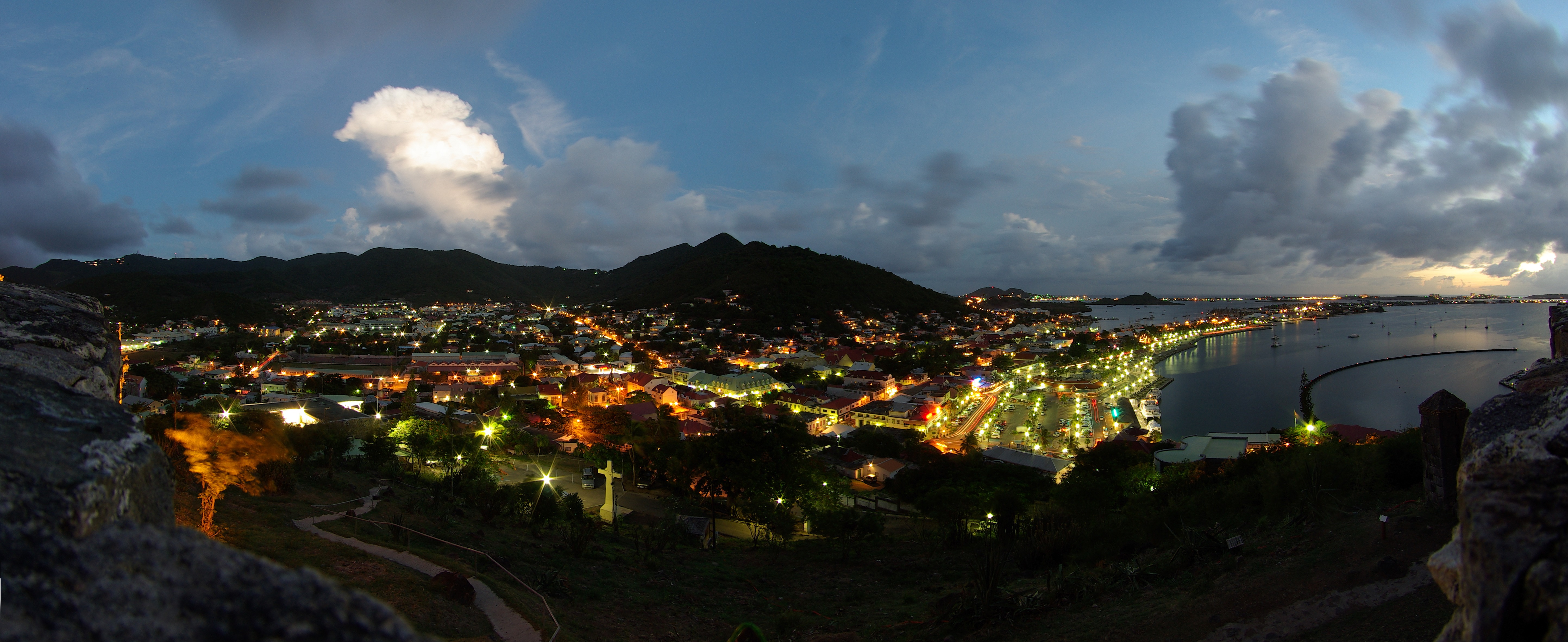 Marigot by night